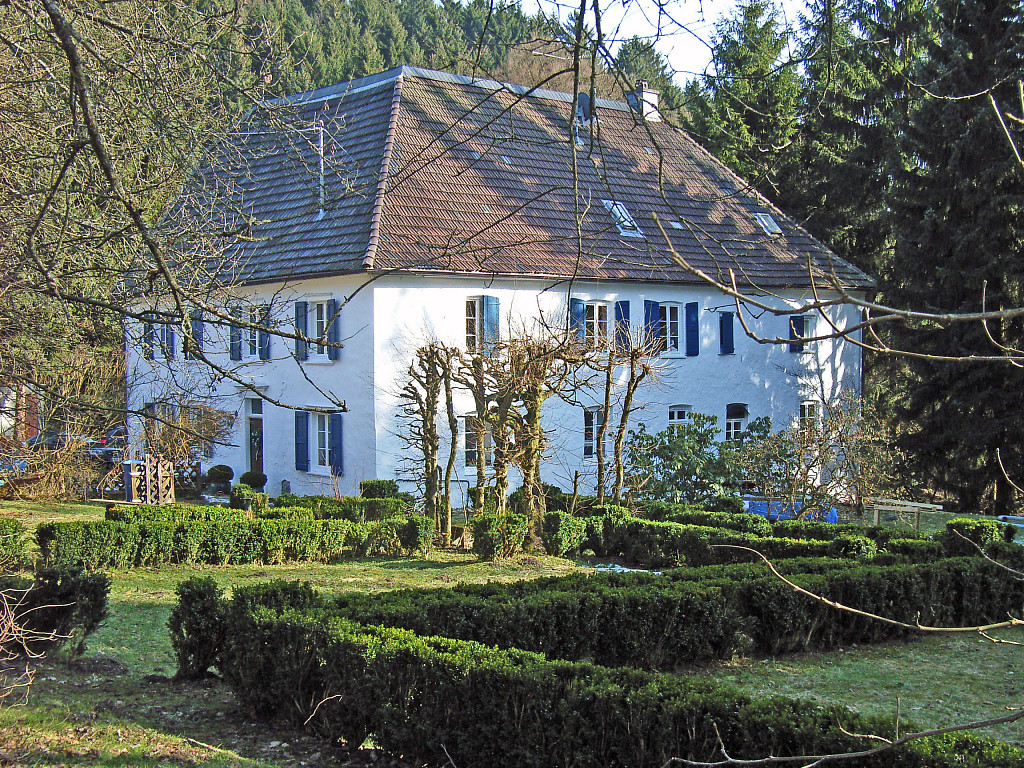 Bredenbruch, district of Gummersbach, North Rhine-Westphalia, Germany: The so called "castle" (fortified farm house)